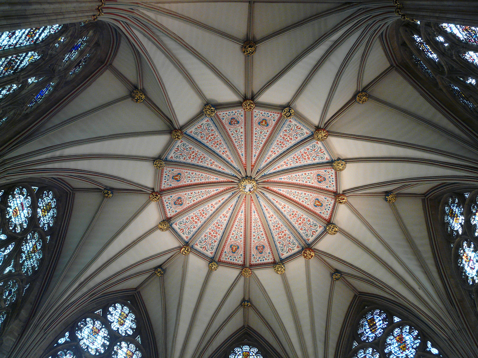 The Gothic vault without central support above the Chapter House of York Minster, York, England